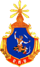 Royal Cambodian Armed Forces Logo